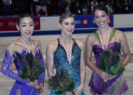 Skate_Canada_2008_ladies_podium. From left to right: Fumie Suguri (2nd); Joannie Rochette (1st); Alissa Czisny (3rd)